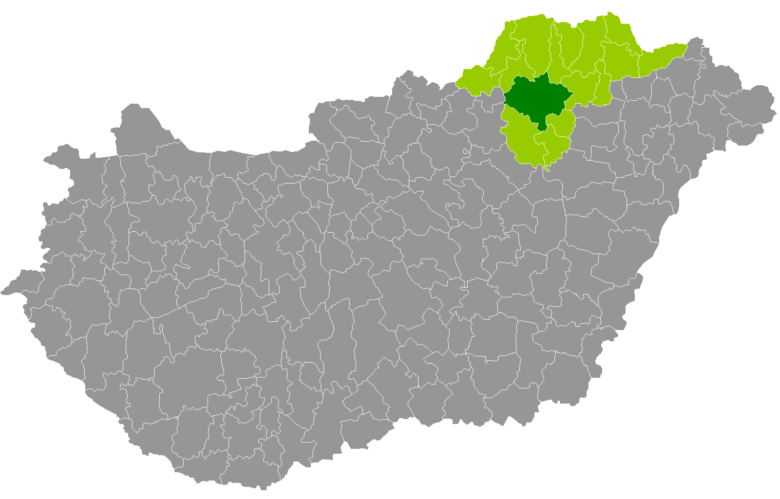 Location of Miskolc District, Borsod-Abaúj-Zemplén, Hungary